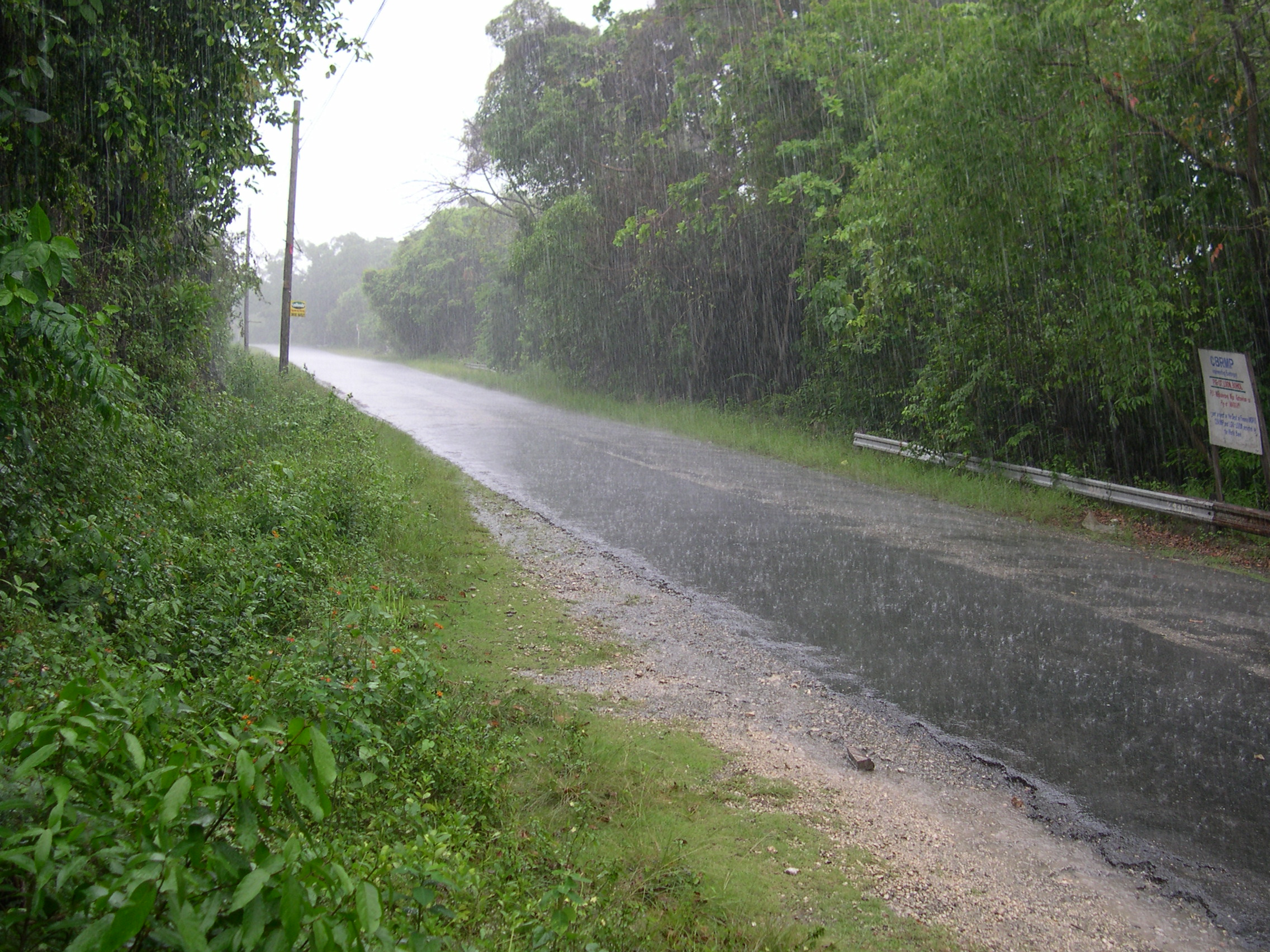 Waiting for the tropical rainshower to stop somewhere between Loon and Tagbilaran City on Bohol, Philippines